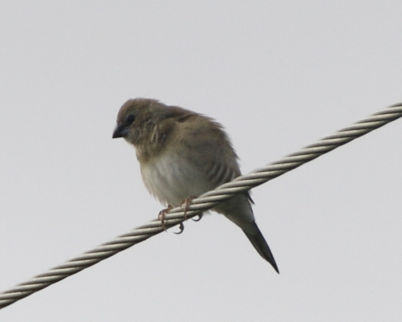 Plum-headed Finch Neochmia modesta Capertee Valley,Blue Mountains, NSW, Australia 10th. February 2008 690V1155